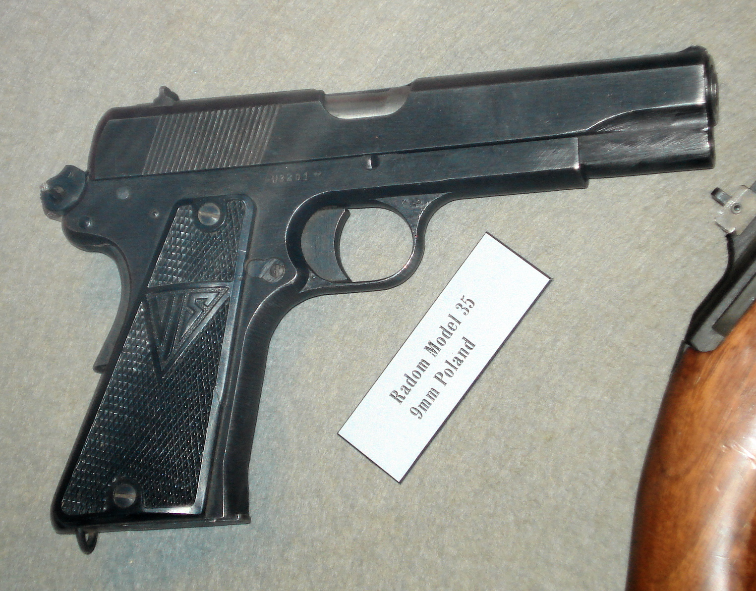 Polish Vis wz. 35 pistol, displayed at the Royal Canadian Regiment Military Museum in London, Ontario. Photo taken on August 10, 2006. Source: Photo by me, User:Balcer.